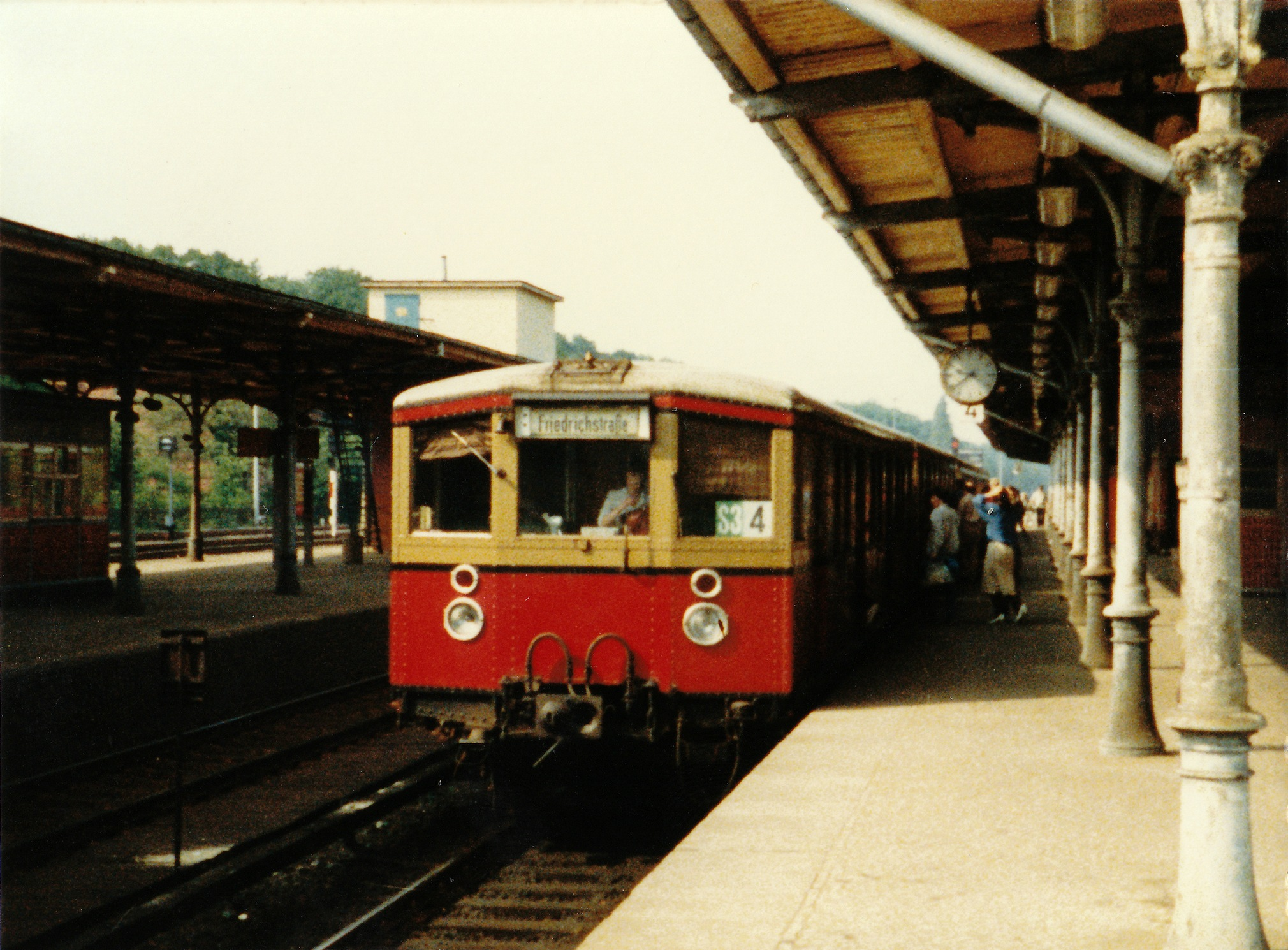 Berliner S-Bahn (West), train type ET 165 at Wannsee. June 1984.